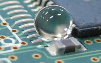 a coating with the ability of making a surface anti-corrosive, water-proof, and all in all, dry.